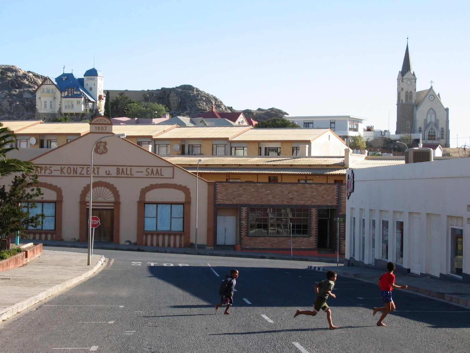 Kapps-Ballsaal with Felsenkirche and Goerke Haus in background, Lüderitz, Namibia.